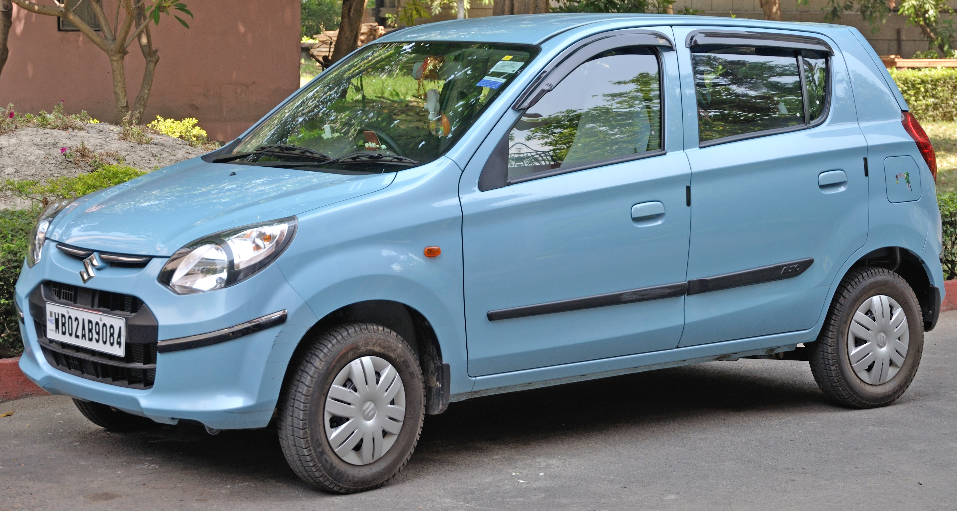 Photographed in greater Kolkata.